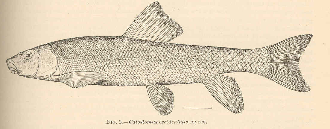 Catostomus occidentalis Ayres Subject: Catostomus Tag: Fish